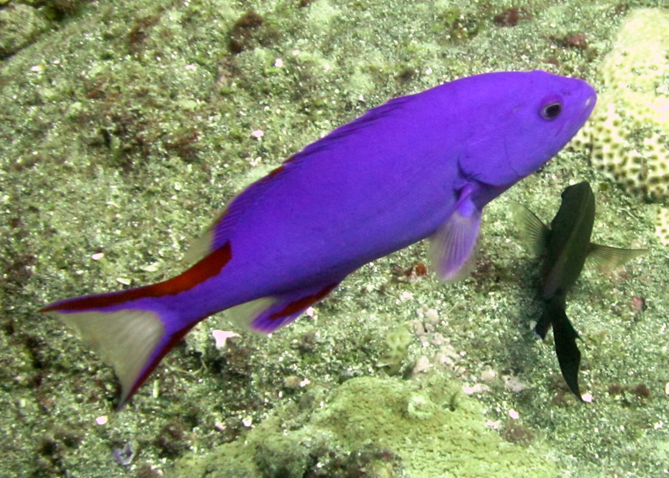 Juvenile masked grouper (Gracila albomarginata) Image ID: corl0328, NOAA's Coral Kingdom Collection Location: Commonwealth of Northern Mariana Islands Photo Date: 2011 Photographer: Kevin Lino NOAA/NMFS/PIFSC/ESD